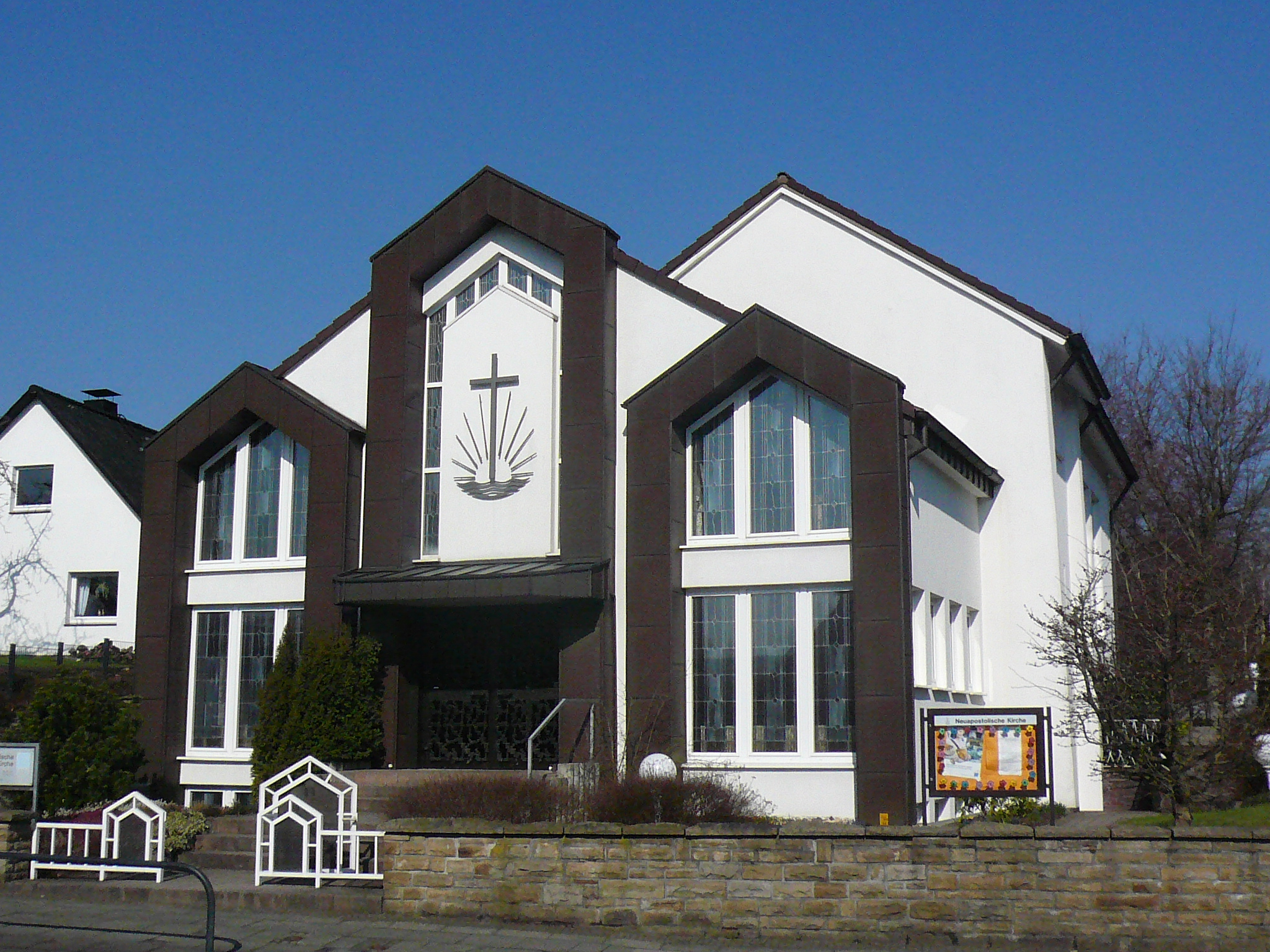 New apostolic church in Dortmund-Kirchhörde, Germany